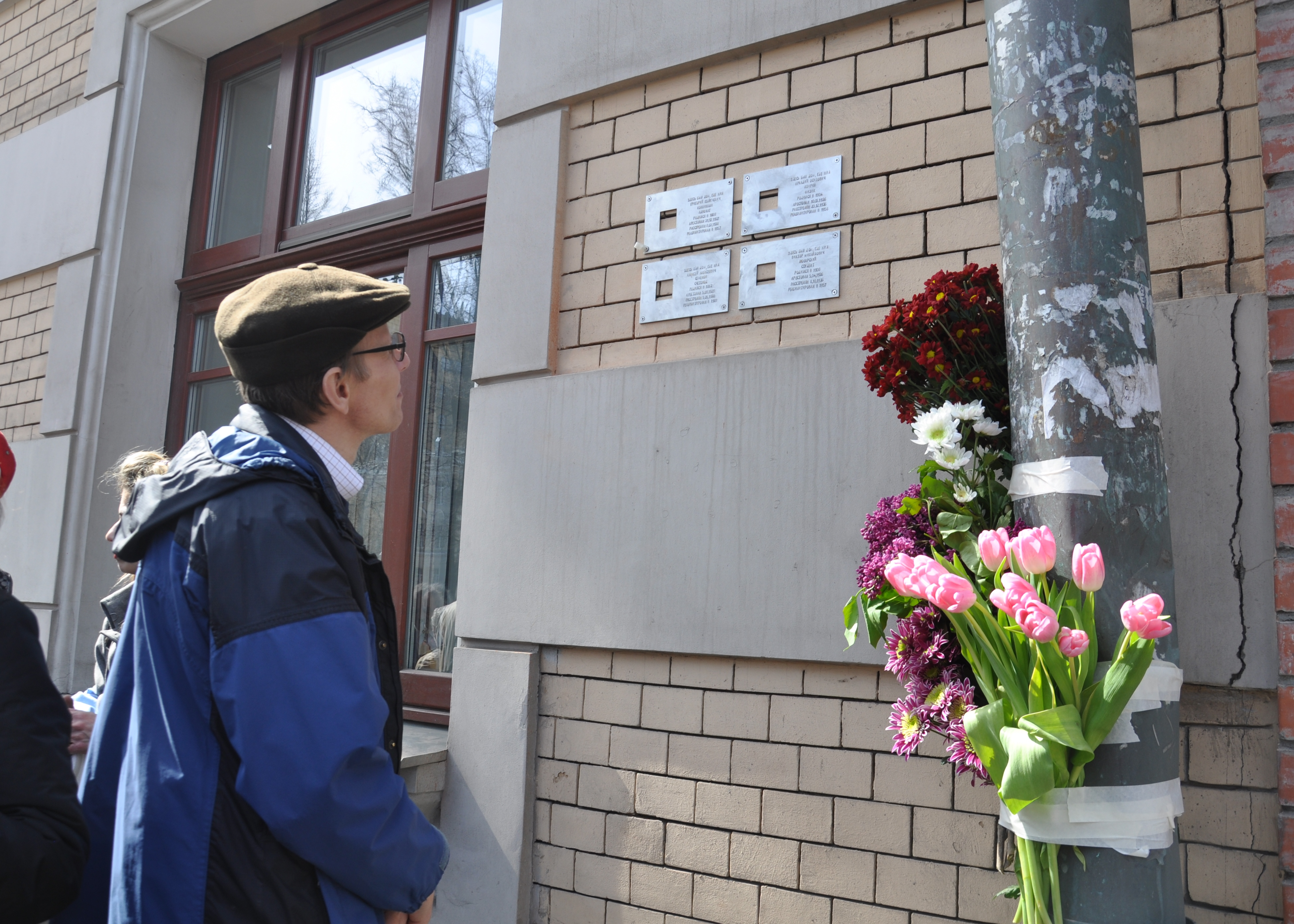 The Last Address Sign is a commemorative plaque that is installed on the last known residential address of victims of the Soviet Union's Communist regime. The memorial sign is a small, 11x19 cm stainless steel plaque that contains information about the repressed person. This information usually contains his or her name, profession, date of birth, date of arrest, date of death, and date of exoneration.